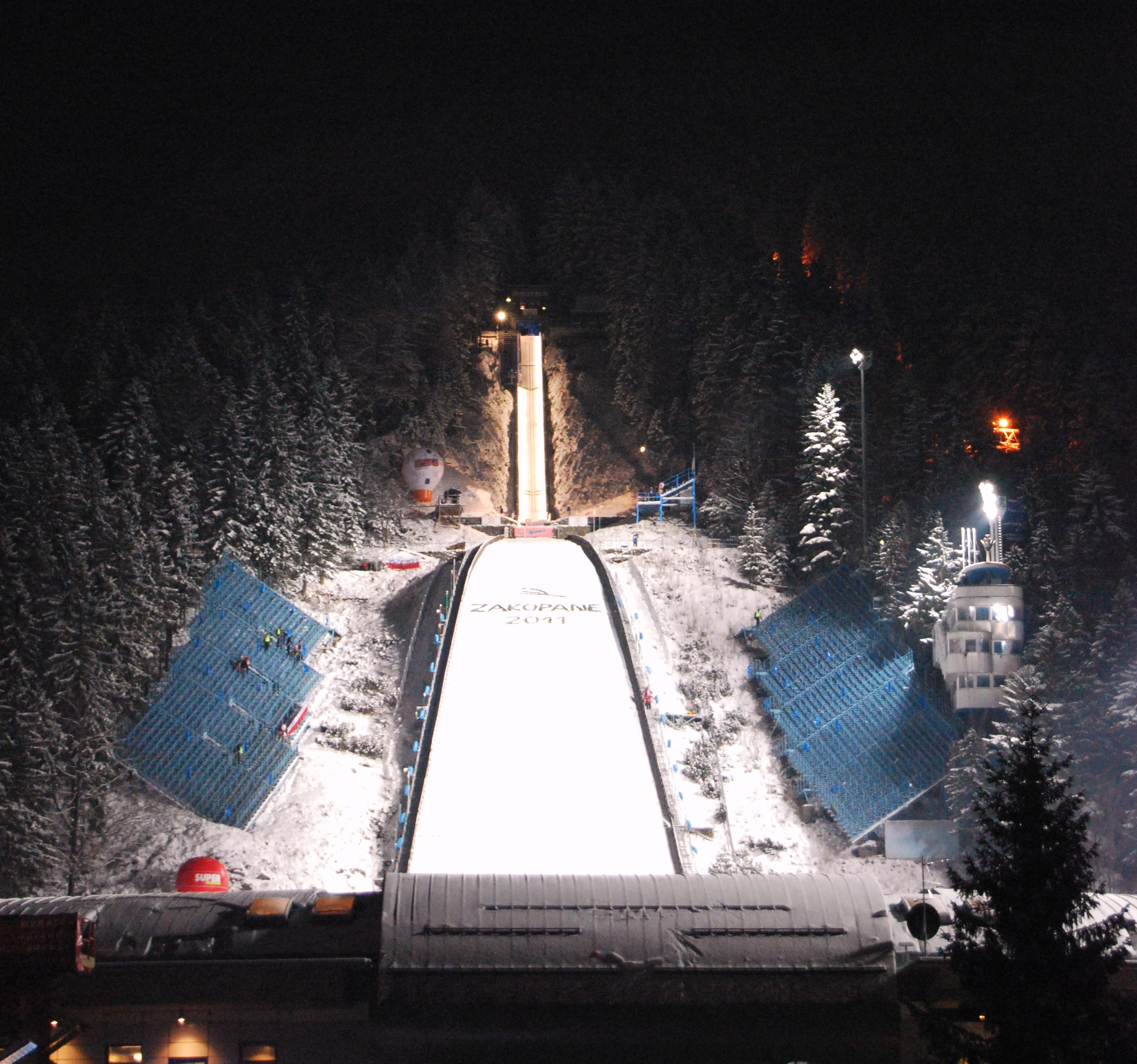 Wielka Krokiew ski jumping hill in Zakopane, Poland